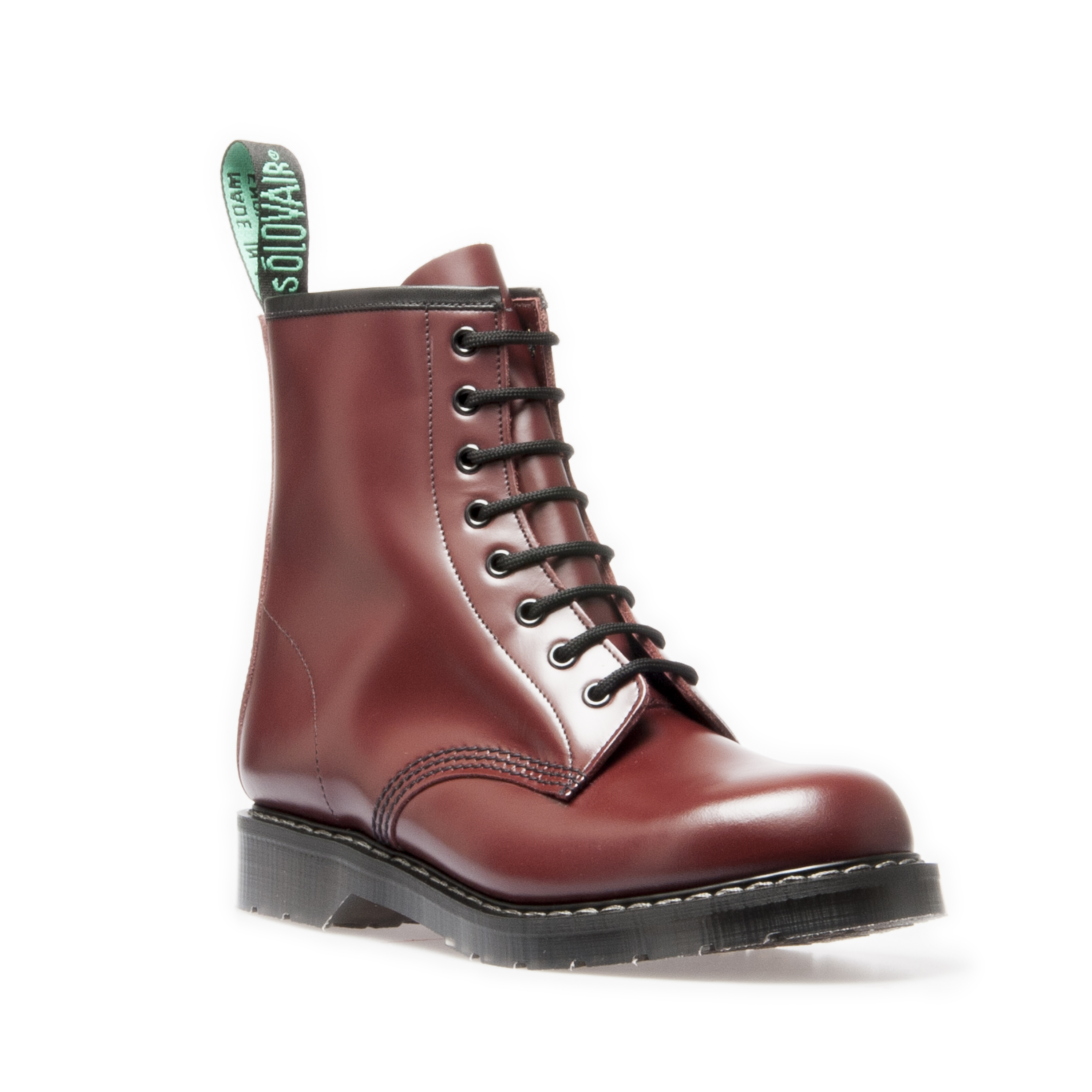 Oxblood 8 eye Derby boot